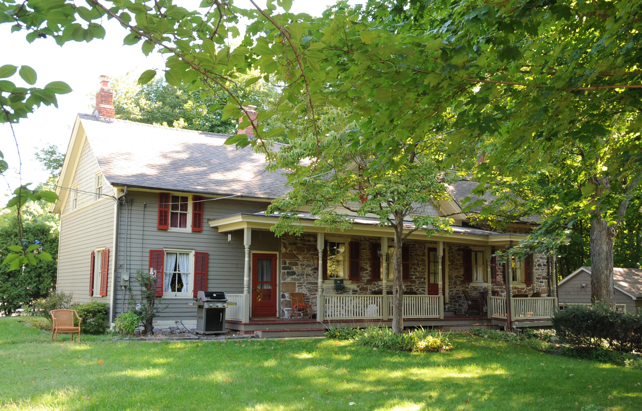 252 RAMAPO VALLEY ROAD - CIRCA 1789 BY A REVOLUTIONARY WAR SOLDIER. STAYED IN THE FAMILY THROUGH THE DAUGHTER’S LINE FOR 194 YEARS